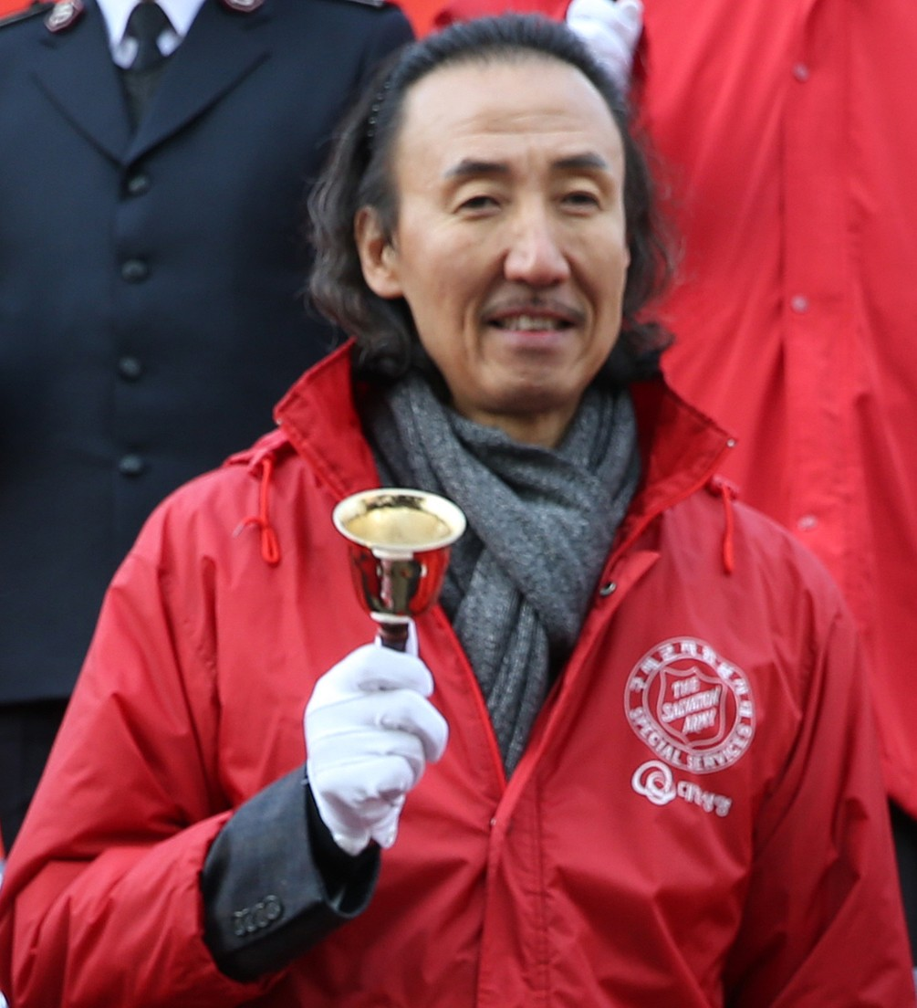 The Salvation Army Kettle Appeal Opening Ceremony